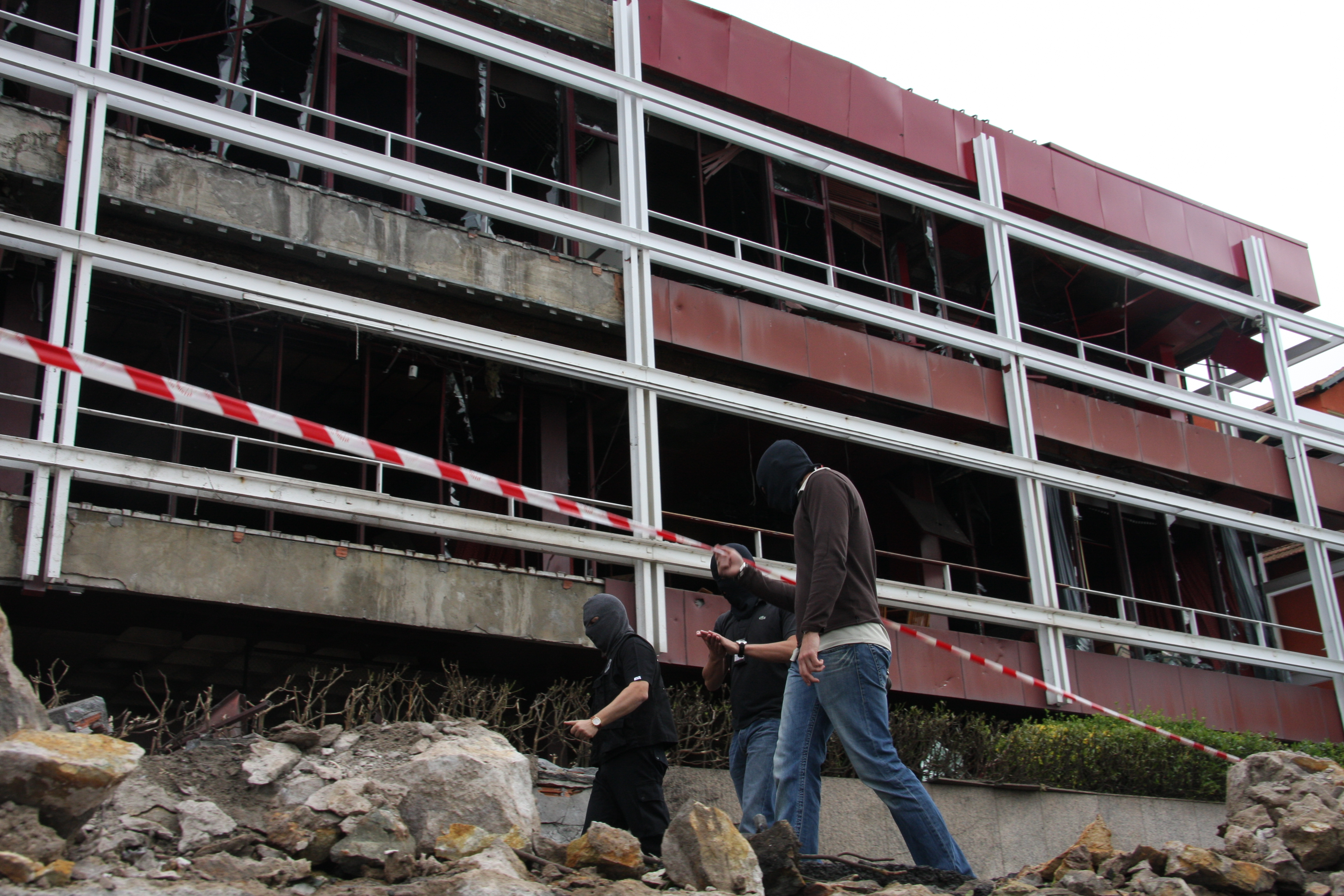 Car bomb explosion in Getxo, Basque Country in May 2008